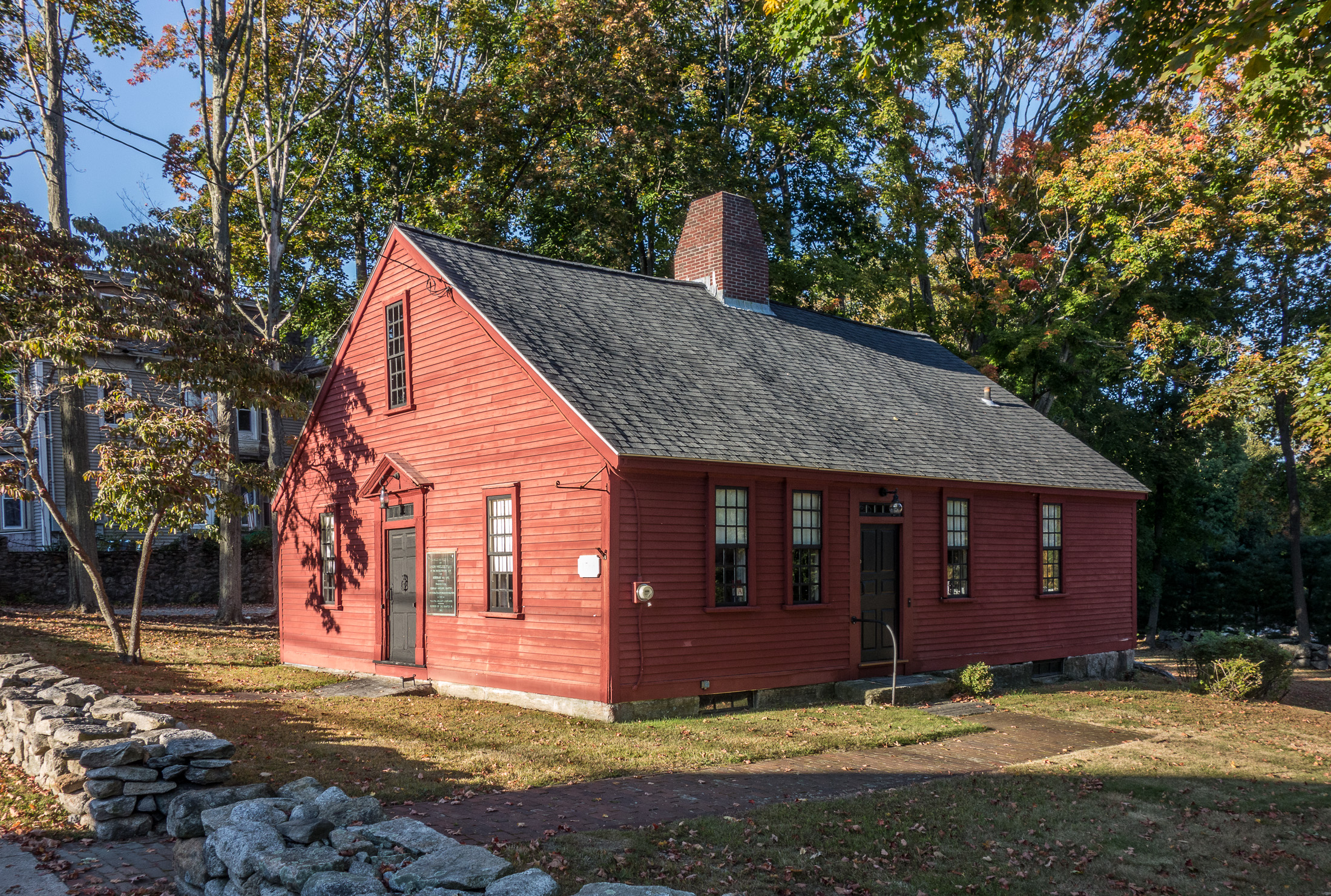 Uxbridge Common District, Main, Court, and Douglas Sts.